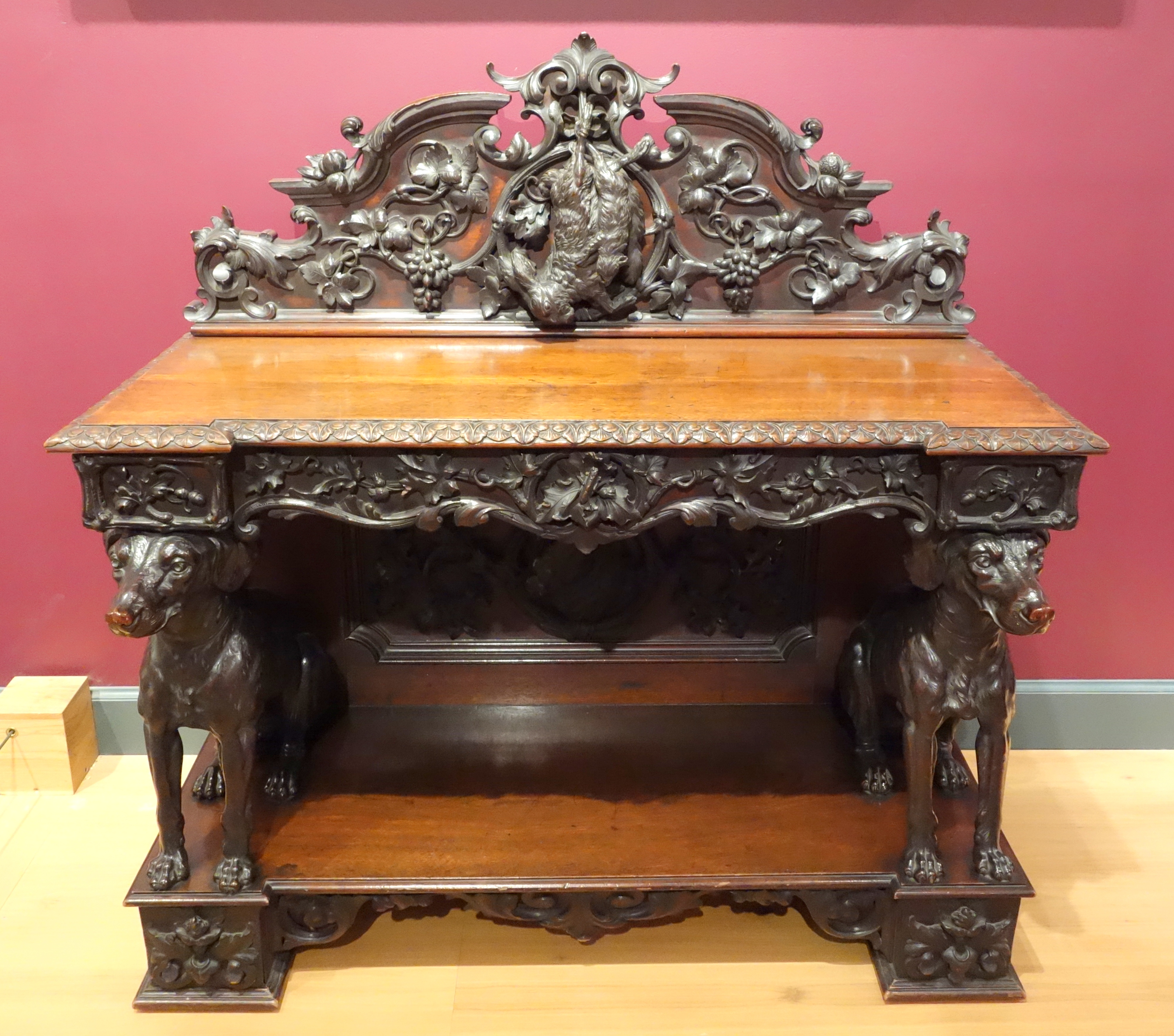 Exhibit in the Brooklyn Museum - Brooklyn, New York, USA. This artwork is in the public domain because the artist died more than 70 years ago.